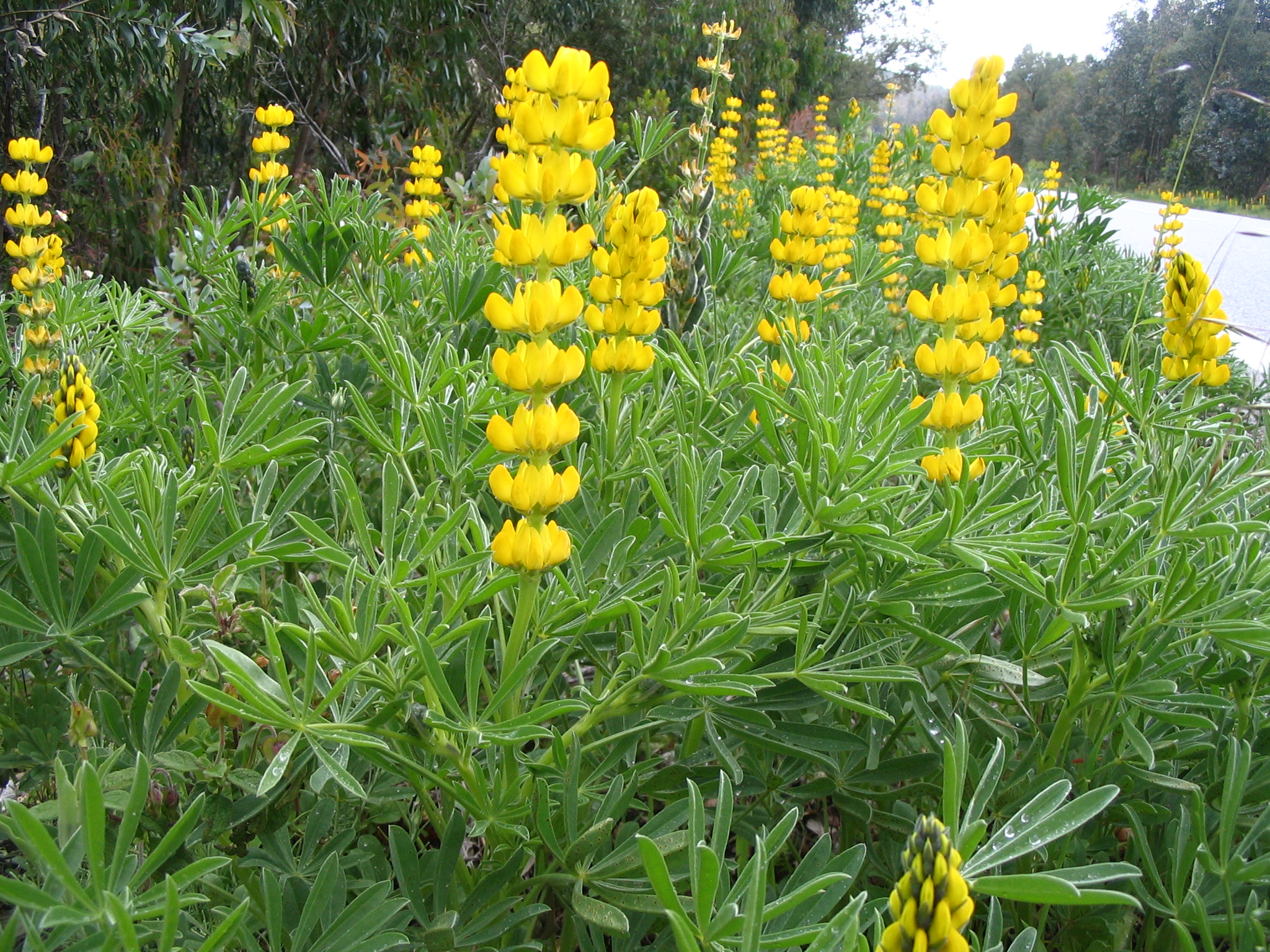 Lupinus luteus - Yellow lupin